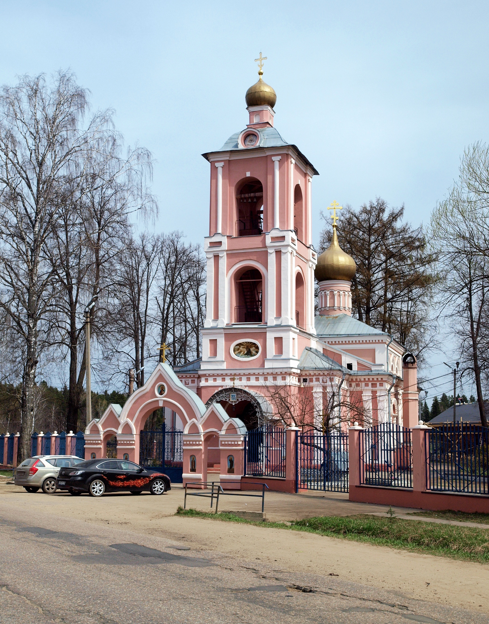 Church of the Dormition in Sharapovo, Odintsovsky District, Moscow Oblast. Built in 1880-1887, architect: Ivan Vladimirov.